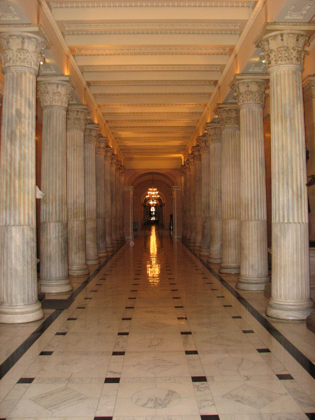 Photograph of the Hall of Columns in the United States Capitol, taken by Rebel At, on June 30th, 2007.